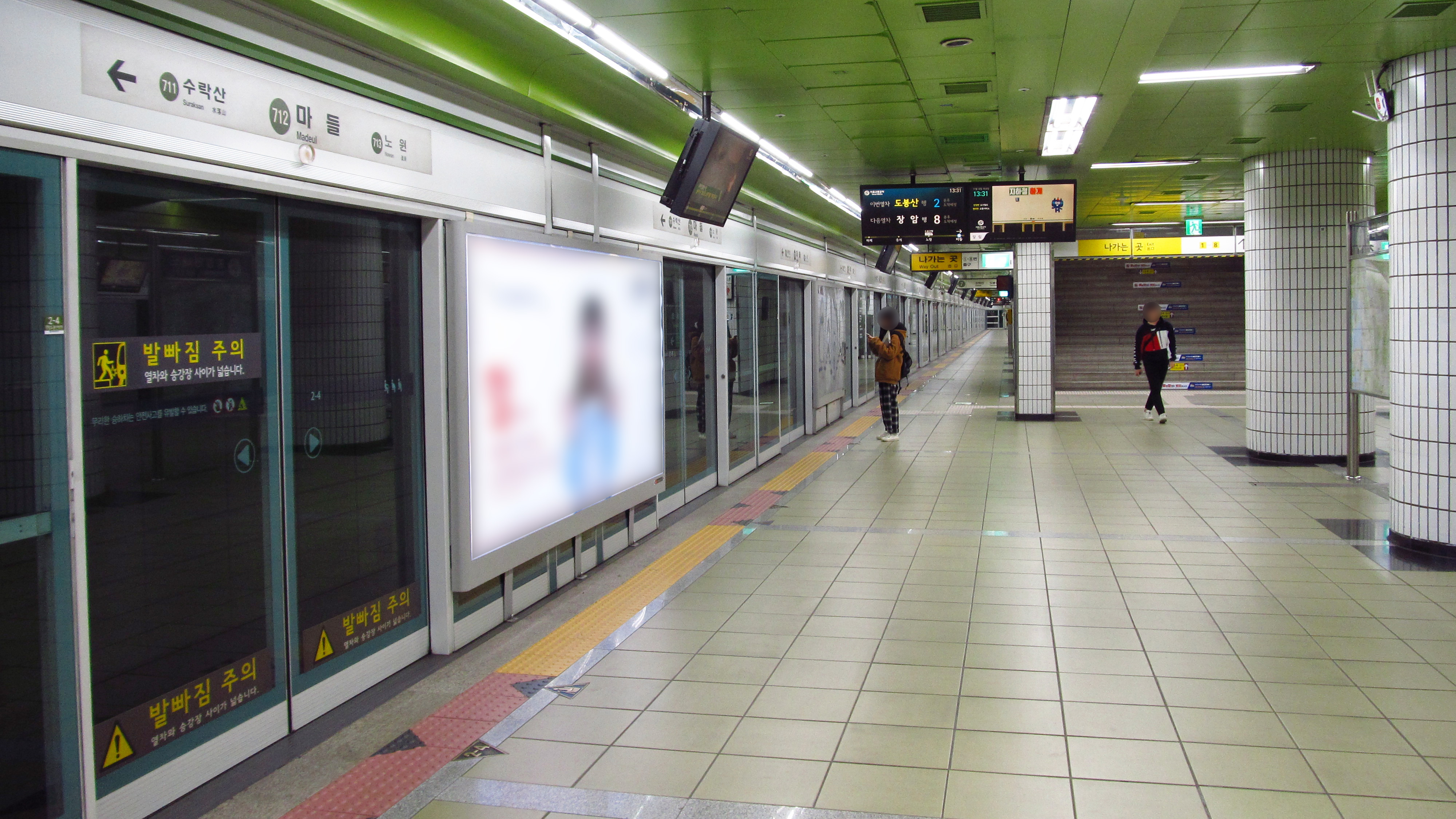 The platform at Madeul Station on Seoul Subway Line 7 in Nowon-gu, Seoul, Republic of Korea(South Korea)